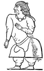 depiction of the Queen of Punt